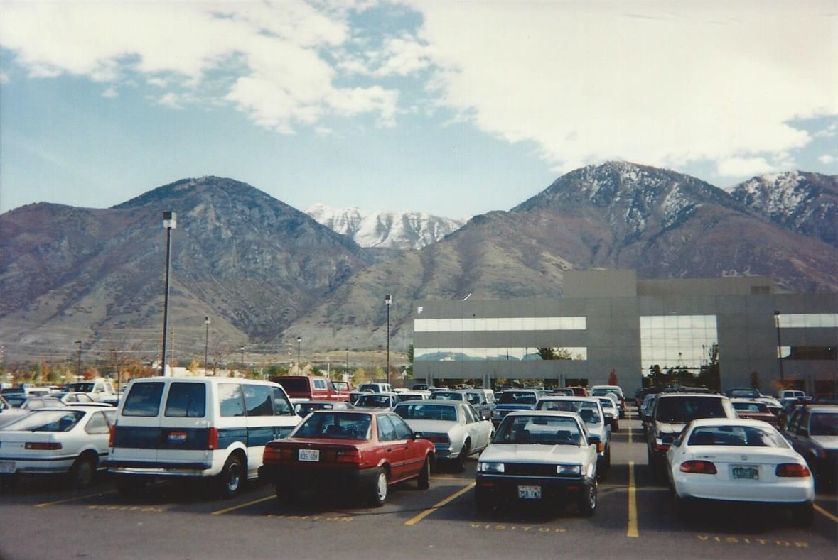 Novell's Building F at its former Provo, Utah headquarters complex, within the East Bay Business Park. This building stands 200 meters (700 feet) north from the former Novell Tower.